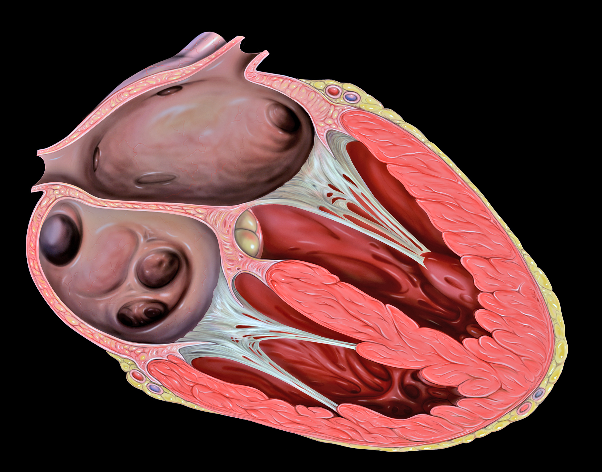 Heart transesophageal echocardiography (TEE) view